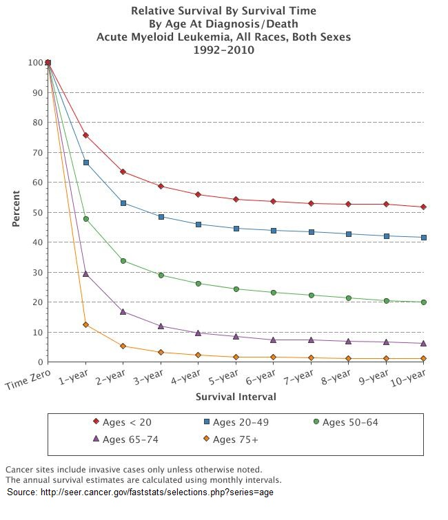 Graphical representation of survival curves upon diagnosis (at given age group) of Acute Myeloid Leukemia